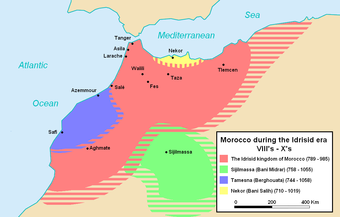 Map of Morocco during the idrissid era. Refs: Euratlas maps [1][2], Shepherd's works [3]. Encyclopédie Berbère [4] and the description of the idrisid empire at the death of Idriss II in 828 [5][6][7].